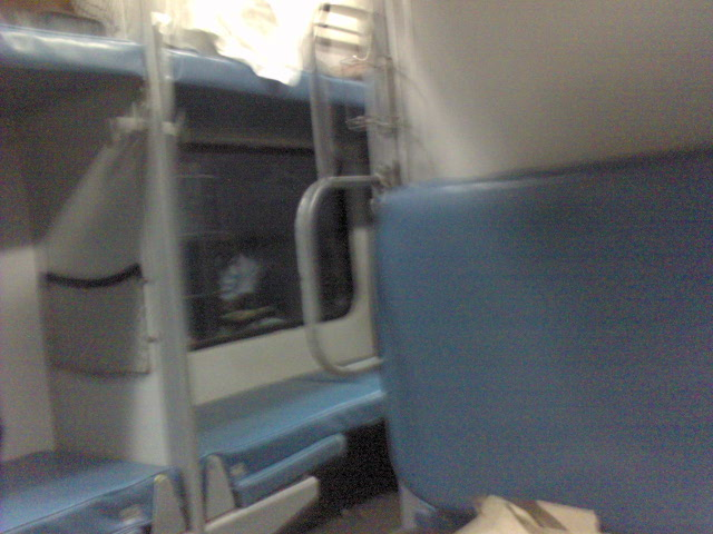 Interior of Third-AC of a rajdhani train